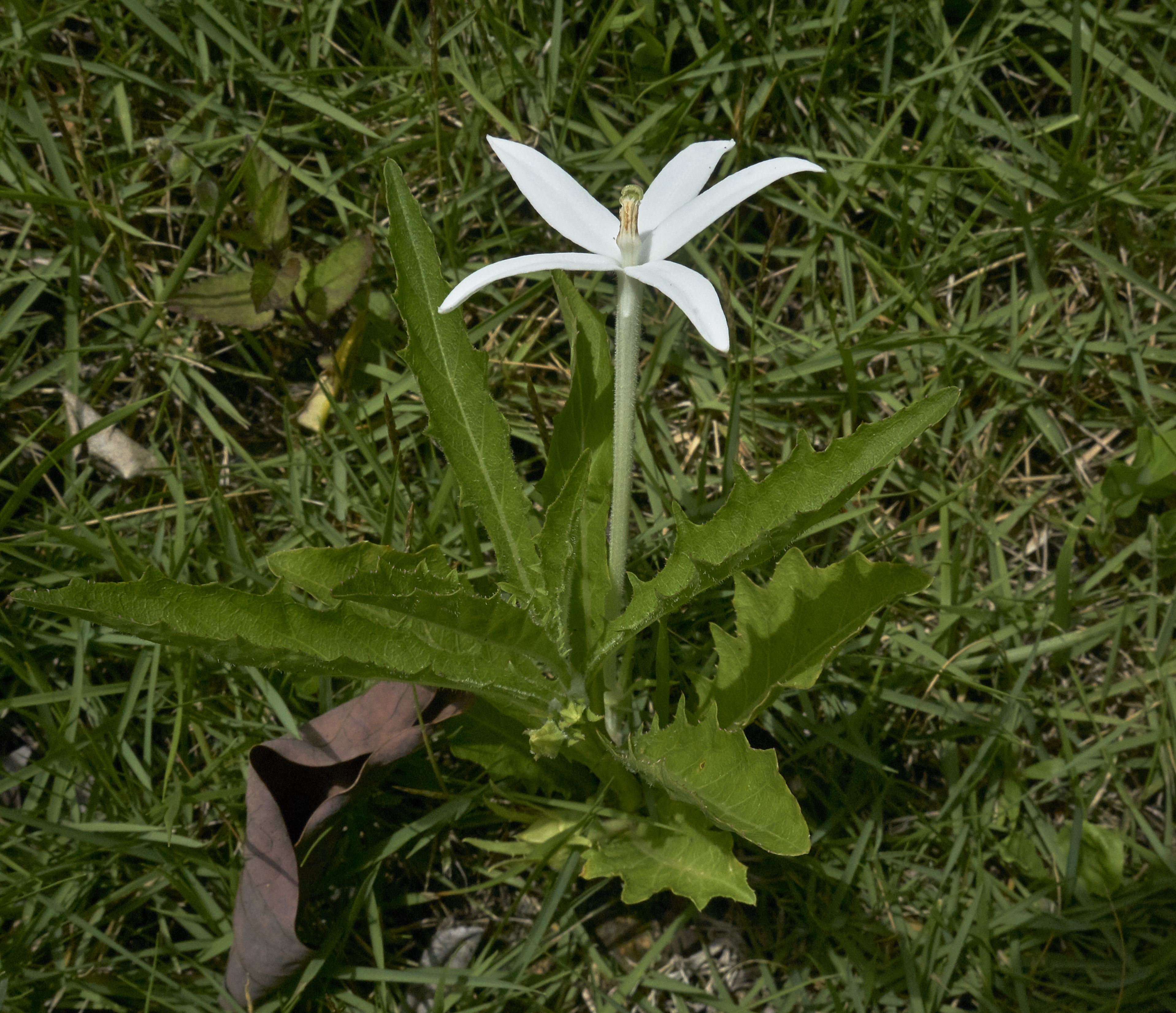 Hippobroma longiflora in the ruins of Xunantunich, Belize The making of this document was supported by the Community-Budget of Wikimedia Germany.